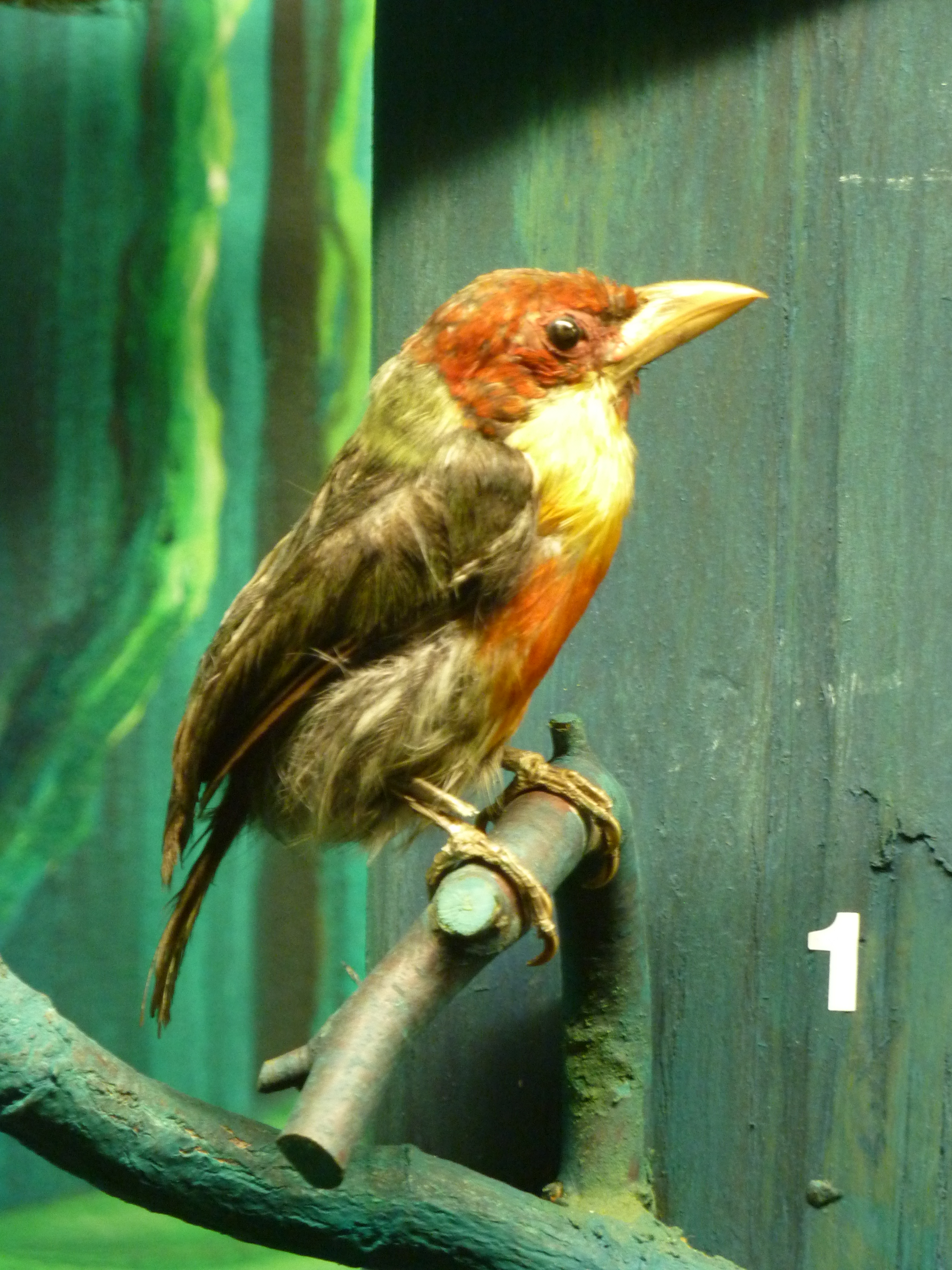 Stuffed Lemon-throated Barbet (Eubucco richardsoni), at the Muséum d'Histoire naturelle de Genève.